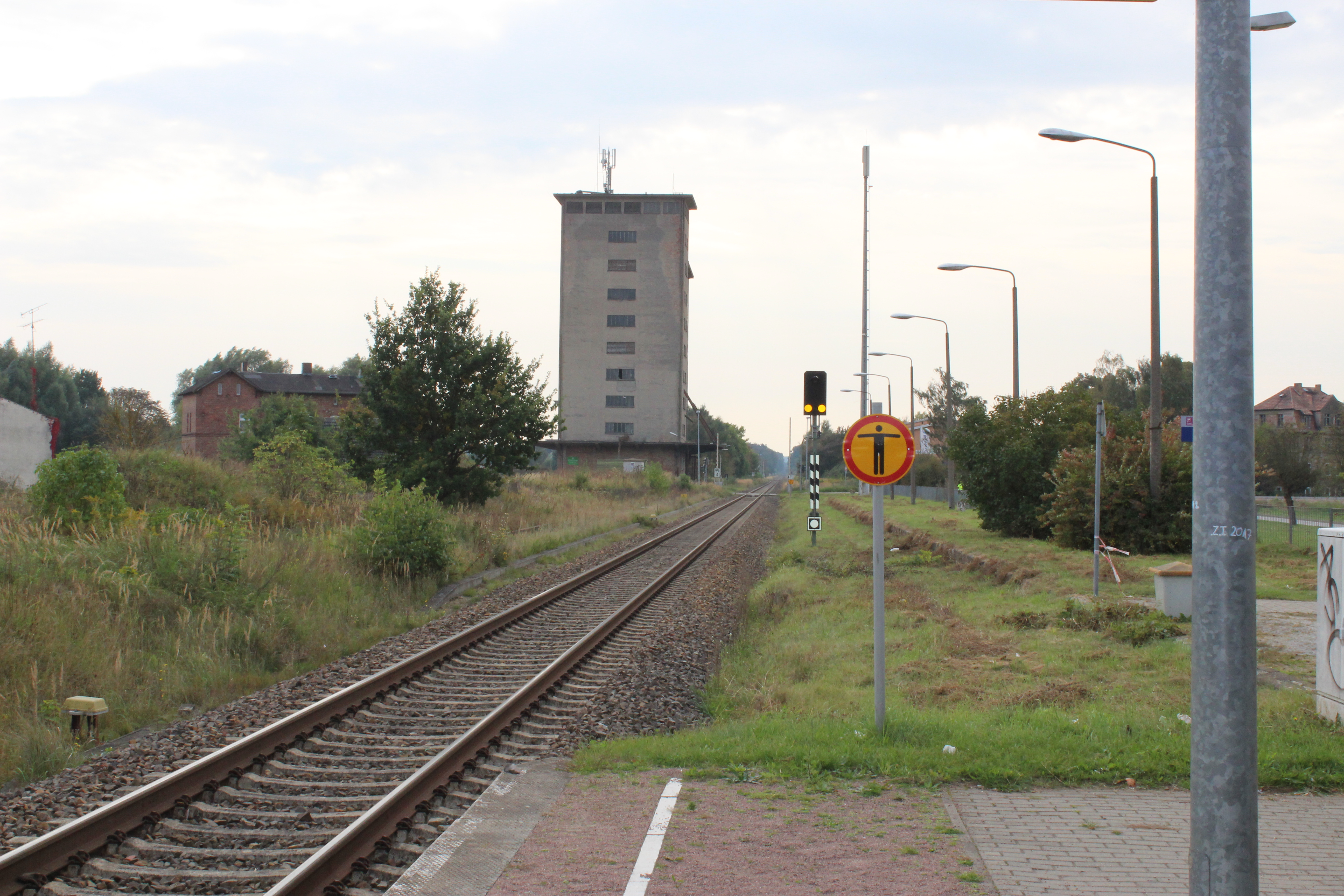 train station Casekow